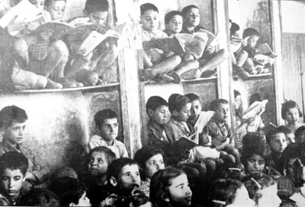 Armenian students cramped into crowded classrooms in Aleppo after they flooded Syrian cities upon the Armenian Massacre of 1915.